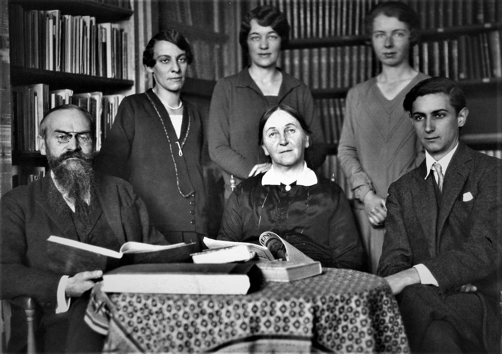 Secretariat of the International Bureau of Education with Pierre Bovet (left) and Marie Butts (center)